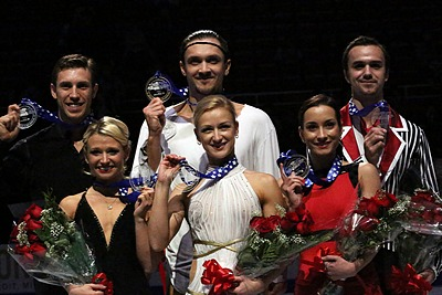 The pair skating at the 2013 Skate America. From left: Kirsten Moore-Towers / Dylan Moscovitch (2nd), Tatiana Volosozhar / Maxim Trankov(1st), Ksenia Stolbova / Fedor Klimov (3rd).